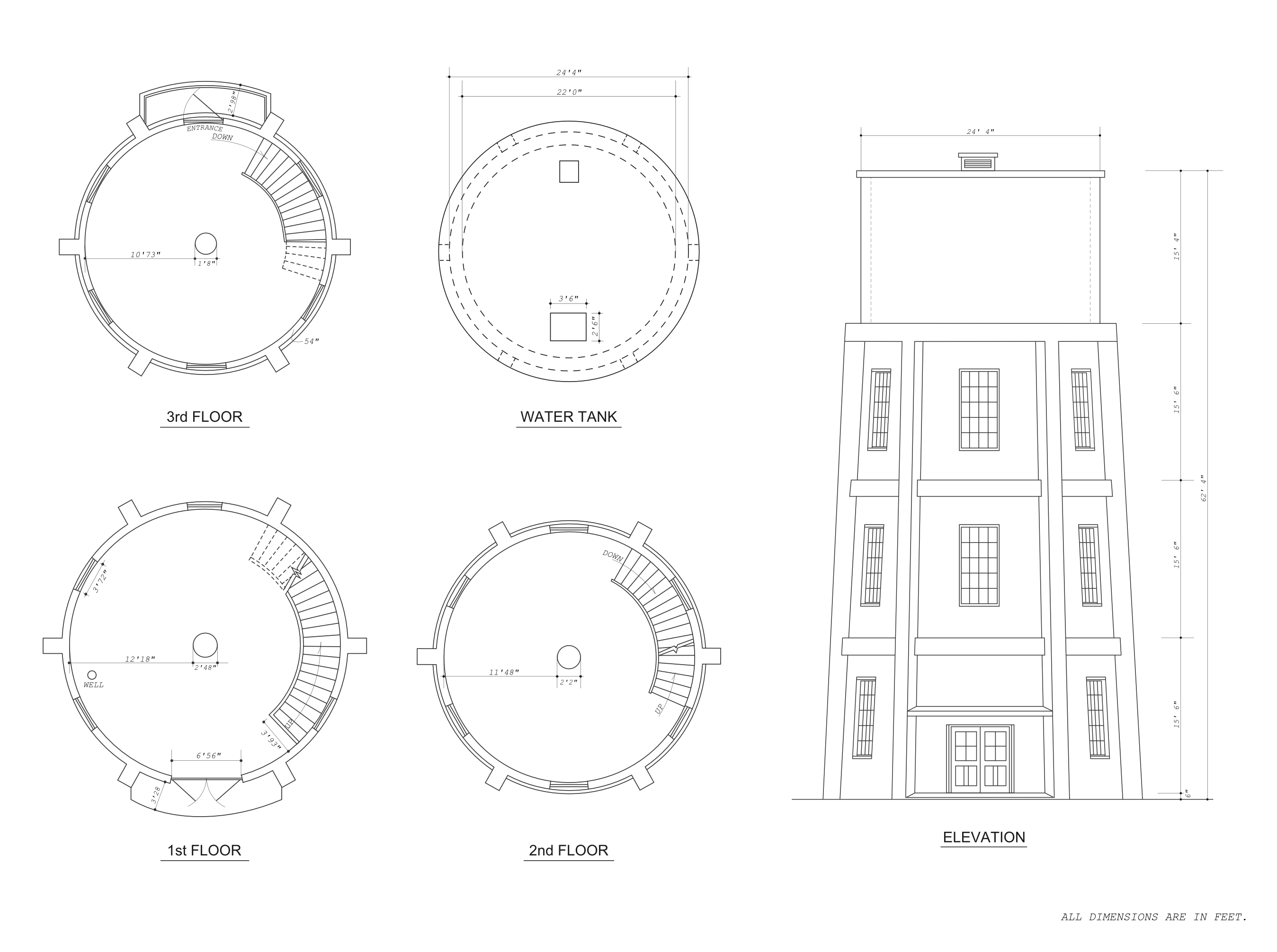 Plot Plan, Water Tower at U.S. Army Camp Tomlinson, Japan.